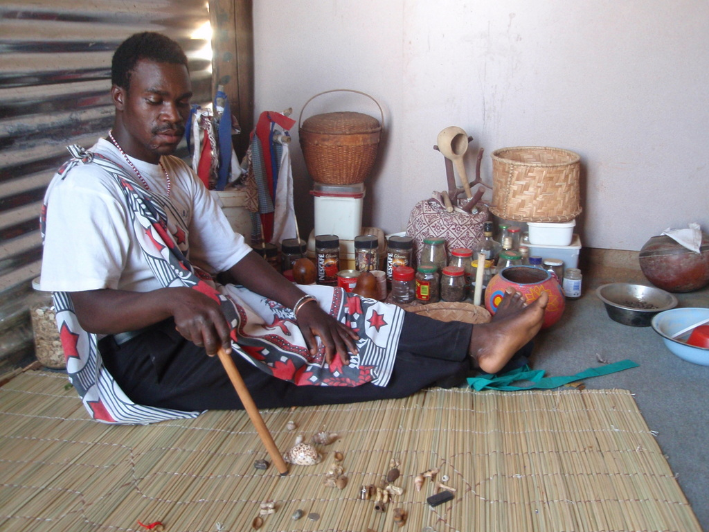 Baba Mangalaan performing a divination by interpretting the thrown bones